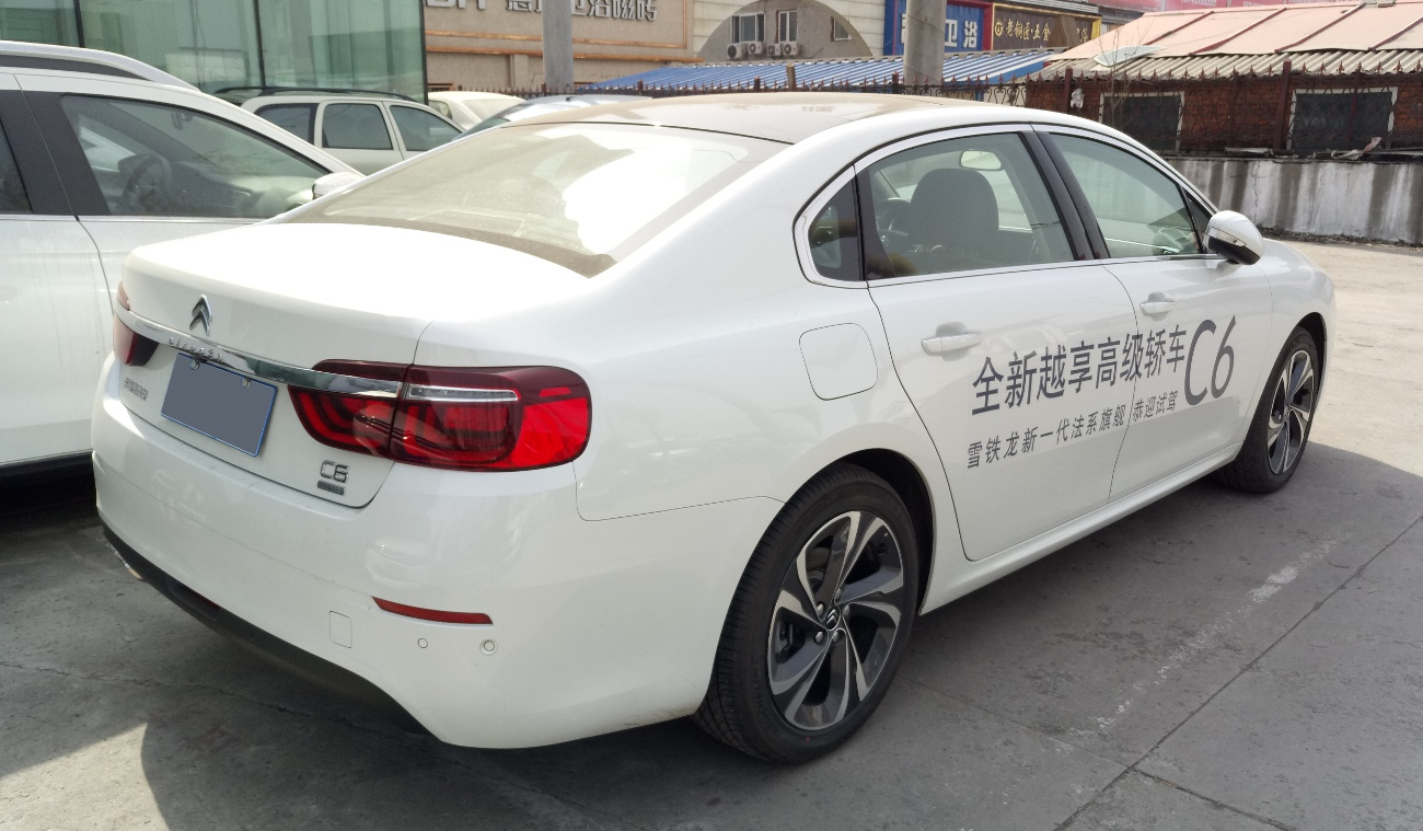 Citroën C6 II photographed in Harbin, Heilongjiang province, China.